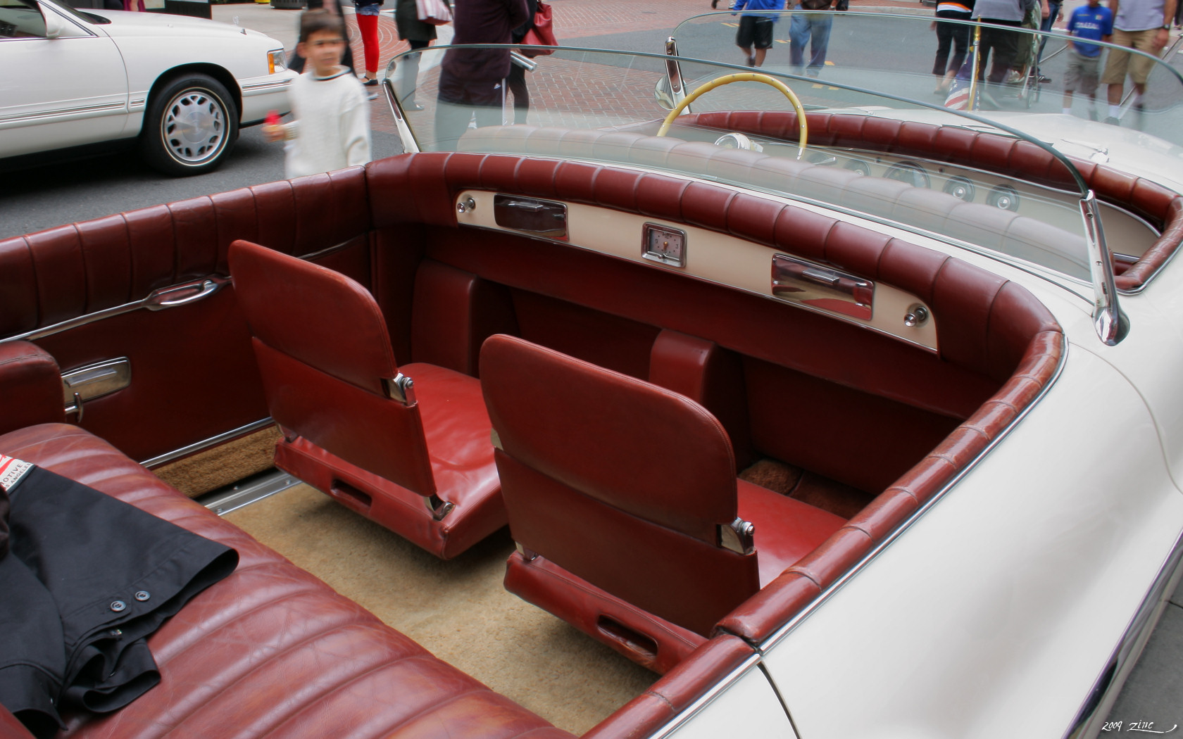 Chrysler Imperial phaeton 1956Caruso Concours d'Elegance Stars and their Cars; Glendale, CA May 31, 2009